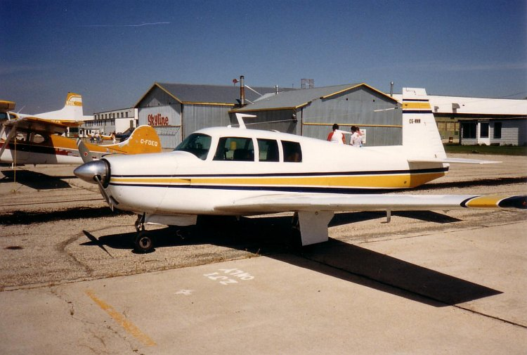 I took this photo of Mooney M20F Statesman C-GMMM at Gimli Manitoba in May 1987